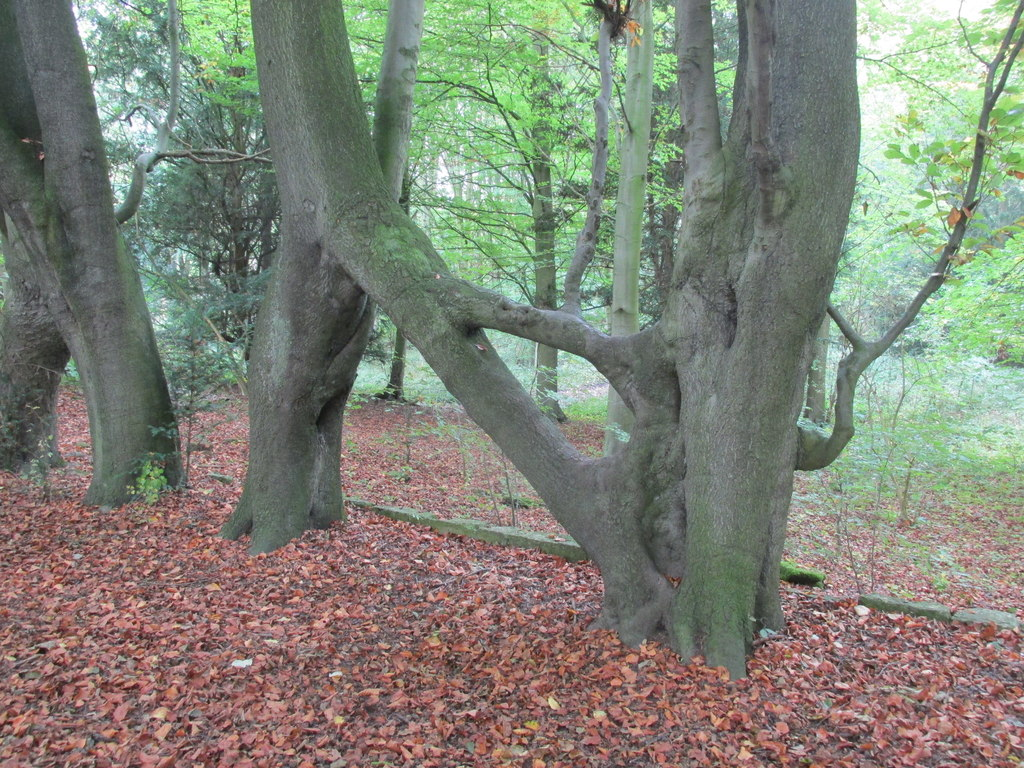 Nellies tree.